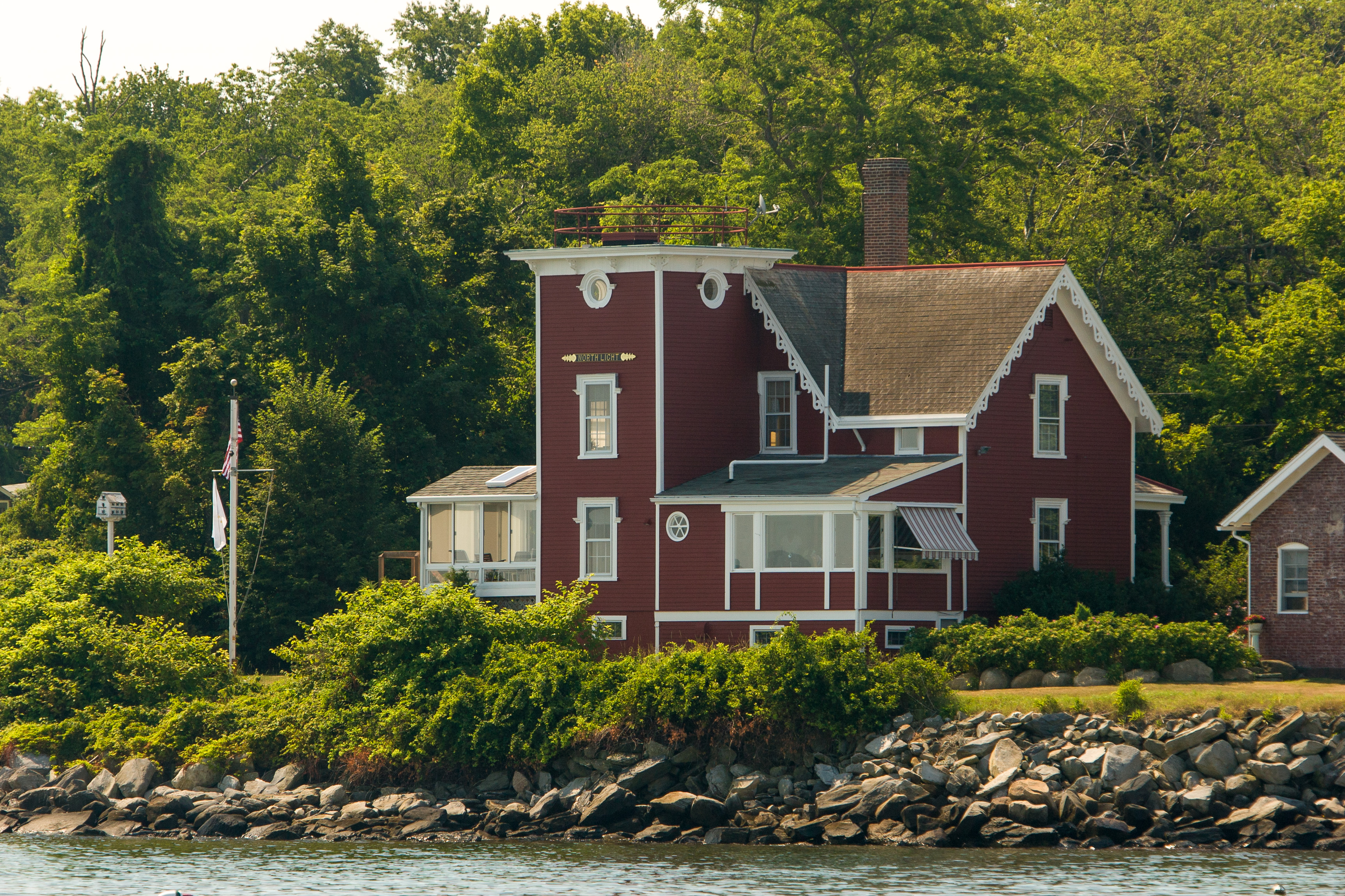 Conanicut Island Lighthouse in 2007